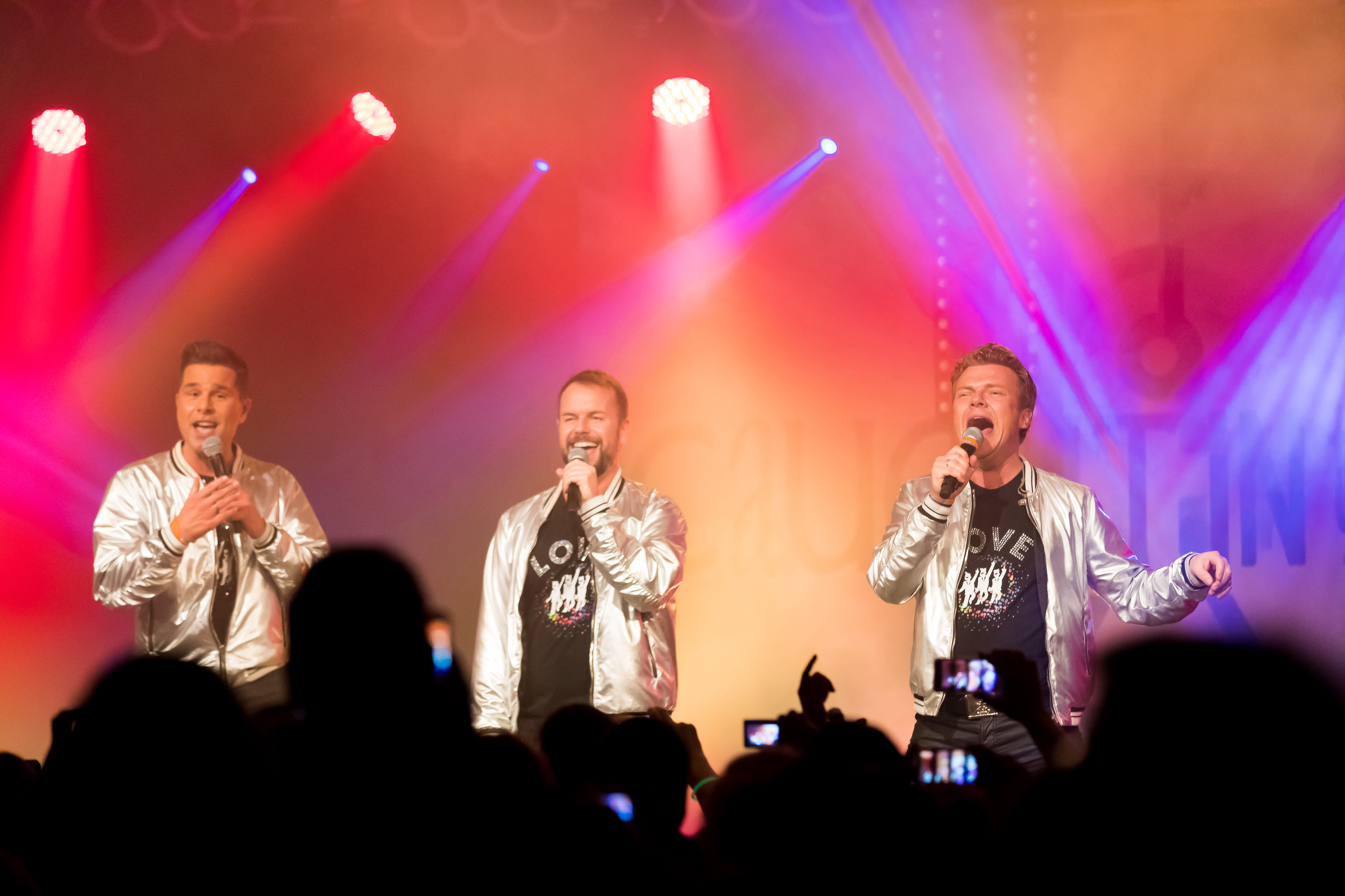 Caught in the Act during Caught in the Act at Alte Seilerei, Mannheim, Baden-Württemberg, Germany on 2016-12-16, Photo: Sven Mandel